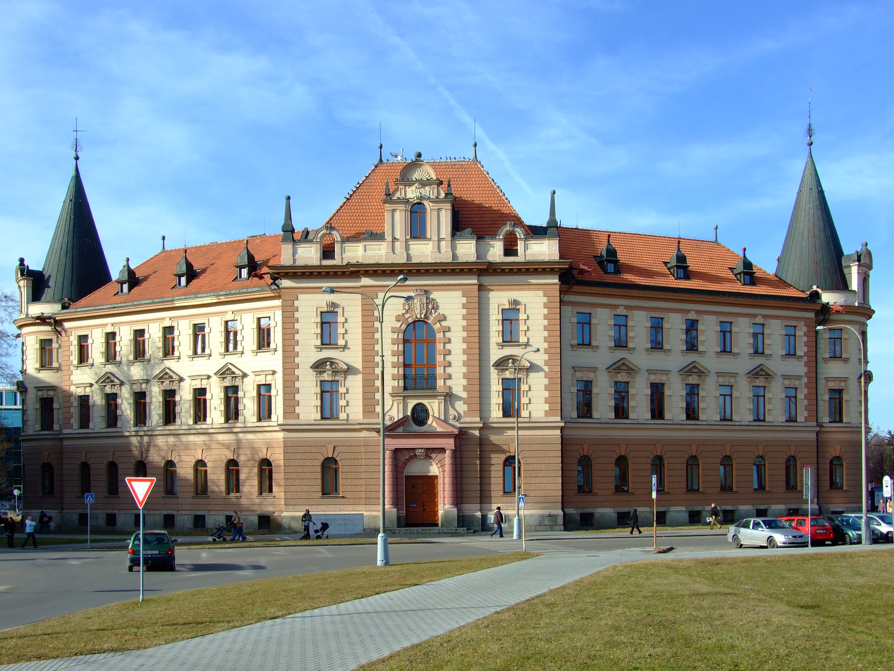 Regional court, České Budějovice, Czech Republic